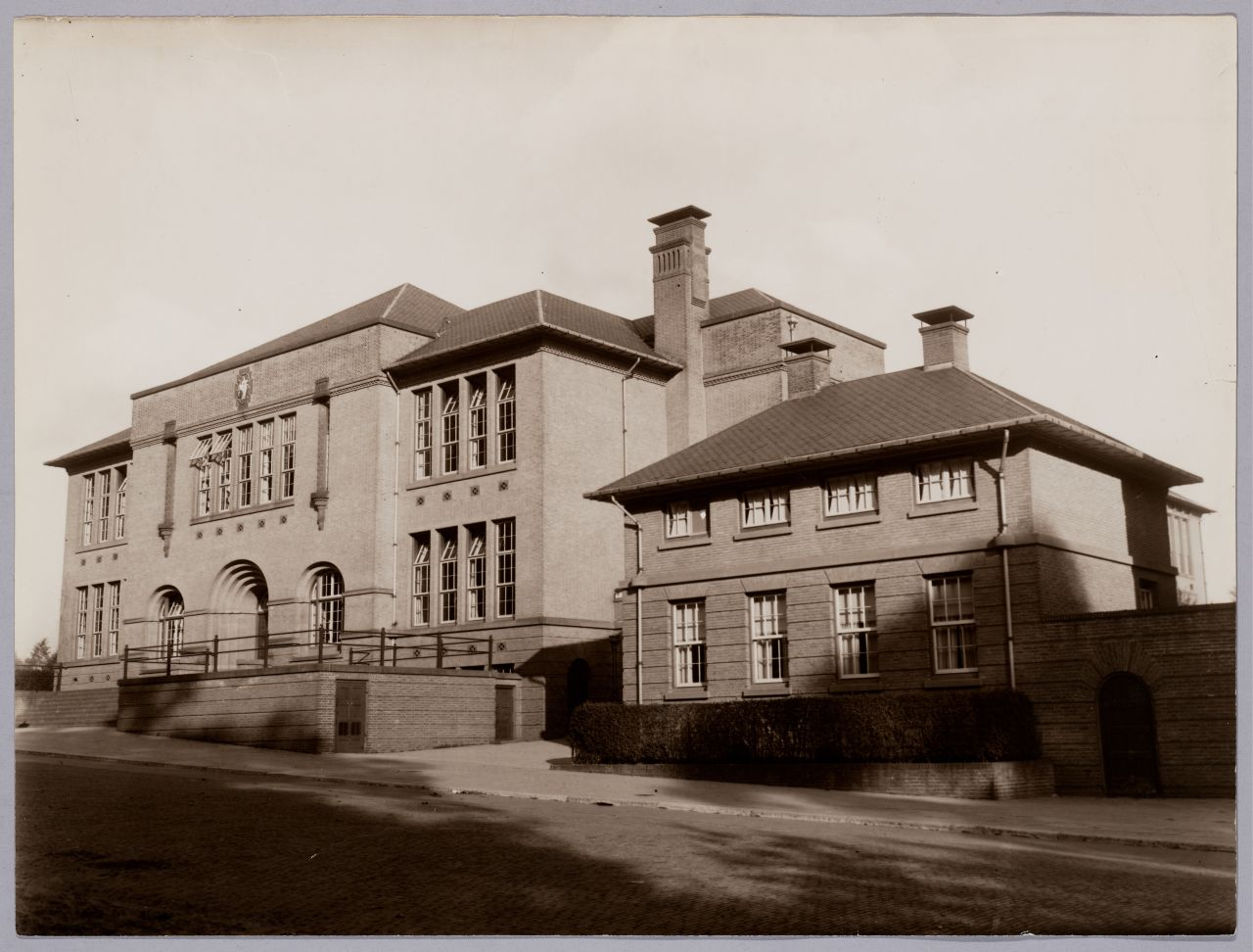 HBS voor meisjes, Arnhem, 1916. Amsterdam. Architect: G.C. Bremer Fotograaf: onbekend. Collectie NAi / TENT_o49 URL van deze afbeelding: Meer foto's uit deze collectie kunt u bekijken in de Collectiedatabase van het NAi. Niet van alle gebouwen en interieurs zijn alle gegevens bekend. Heeft u meer informatie of weet u het adres van een gebouw? Laat dan een reactie achter (als u ingelogd bent bij Flickr) of stuur een mailtje naar: Al deze foto's zijn gemaakt in de eerste helft van de twintigste eeuw. Wij zijn benieuwd hoe deze gebouwen er vandaag de dag uitzien. Heeft u recente foto's van deze gebouwen of locaties, voeg ze dan toe als commentaar. U kunt een eigen Flickr-foto toevoegen door de URL ervan tussen vierkante haken in het commentaarveld te plakken. Secondary school for girls, Arnhem, 1916. Architect: G.C. Bremer Photographer: unknown. NAI Collection / TENT_o49 Persistent URL: For more photographs from this collection, please visit the NAI Collection Database You can help us gain more knowledge on the content of our collection by adding a comment with information. If you do not wish to log in, you can write an e-mail to: All these pictures are taken in the first half of the twentieth century. We are curious to learn how these buildings look like today. If you have recently taken photographs of these buildings or locations, please add them to your comment. If you'd like to include a Flickr photo, simply copy and paste its URL between square brackets in the commentary-field.